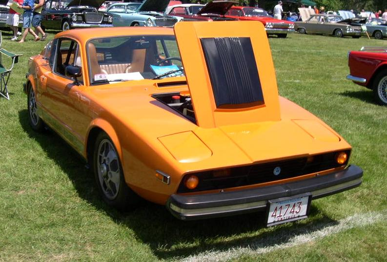 Saab Sonett III Source: Photographed at the Bay State Antique Automobile Club's July 10, 2005 show at the Endicott Estate in Dedham, MA by User:Sfoskett